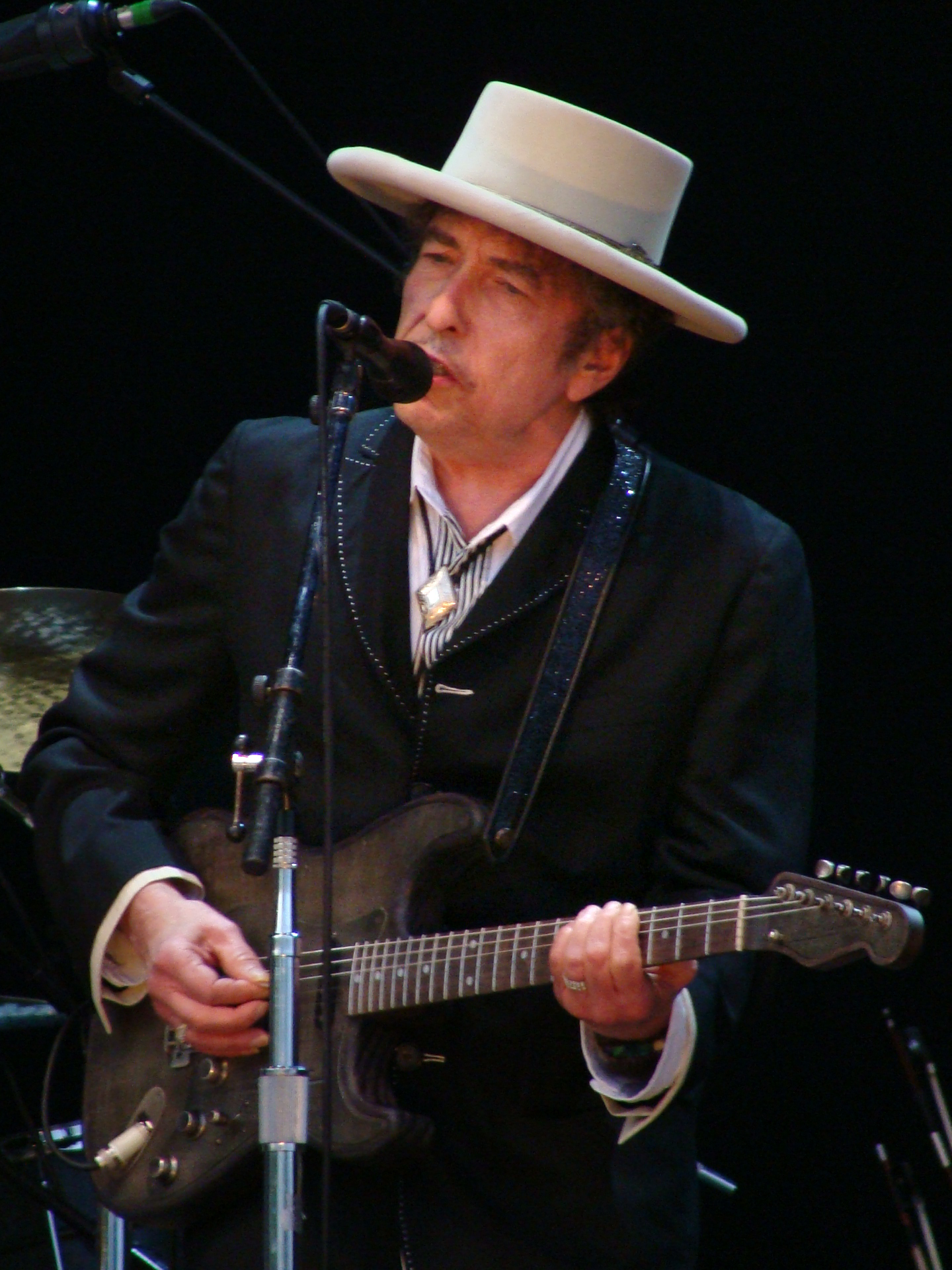 Bob Dylan, onstage in Victoria-Gasteiz, at the Azkena Rock Festival.